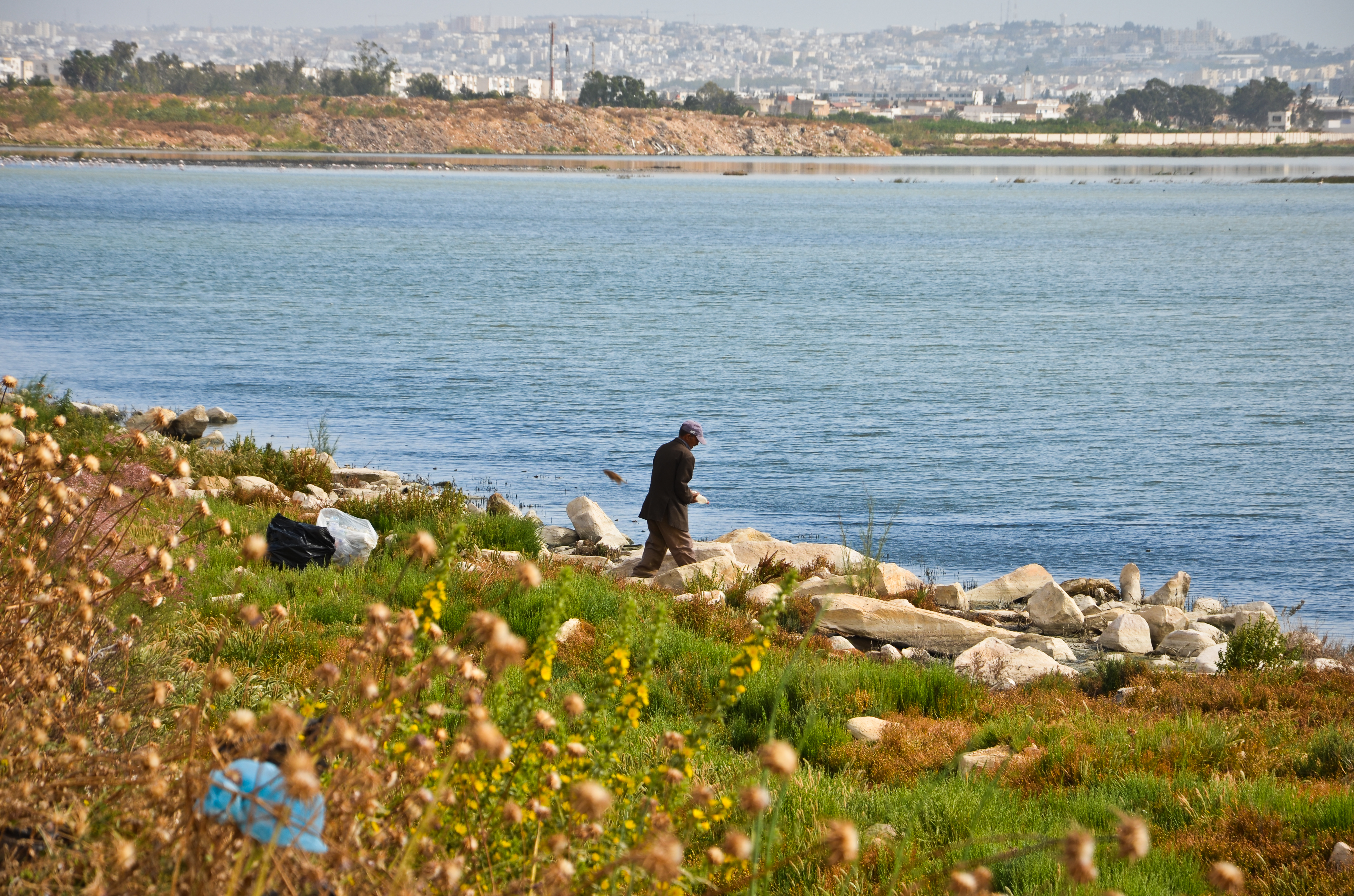 SABKHA